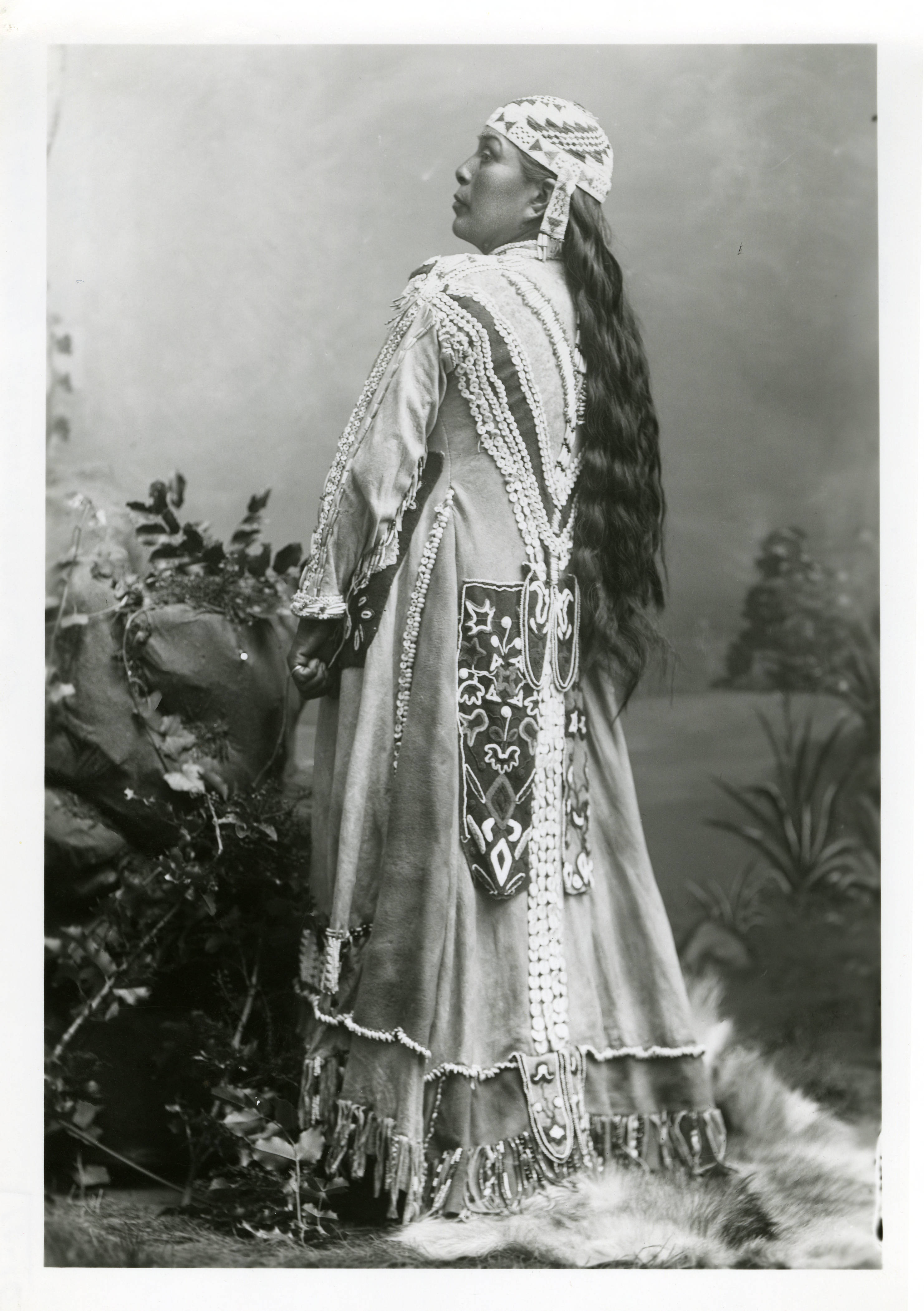 Jenny, or Lady Oscharwasha, Rogue Tribe of the Tekelma Indians, portrait by Peter Britt. This photograph is part of the Peter Britt Photograph Collection at Southern Oregon University and made available courtesy of Southern Oregon University Hannon Library Special Collections.